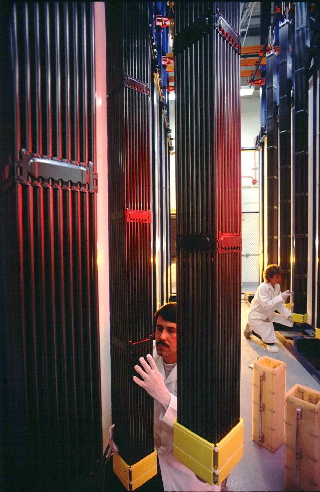 Nuclear Fuel Assembly from US operated Reactors.